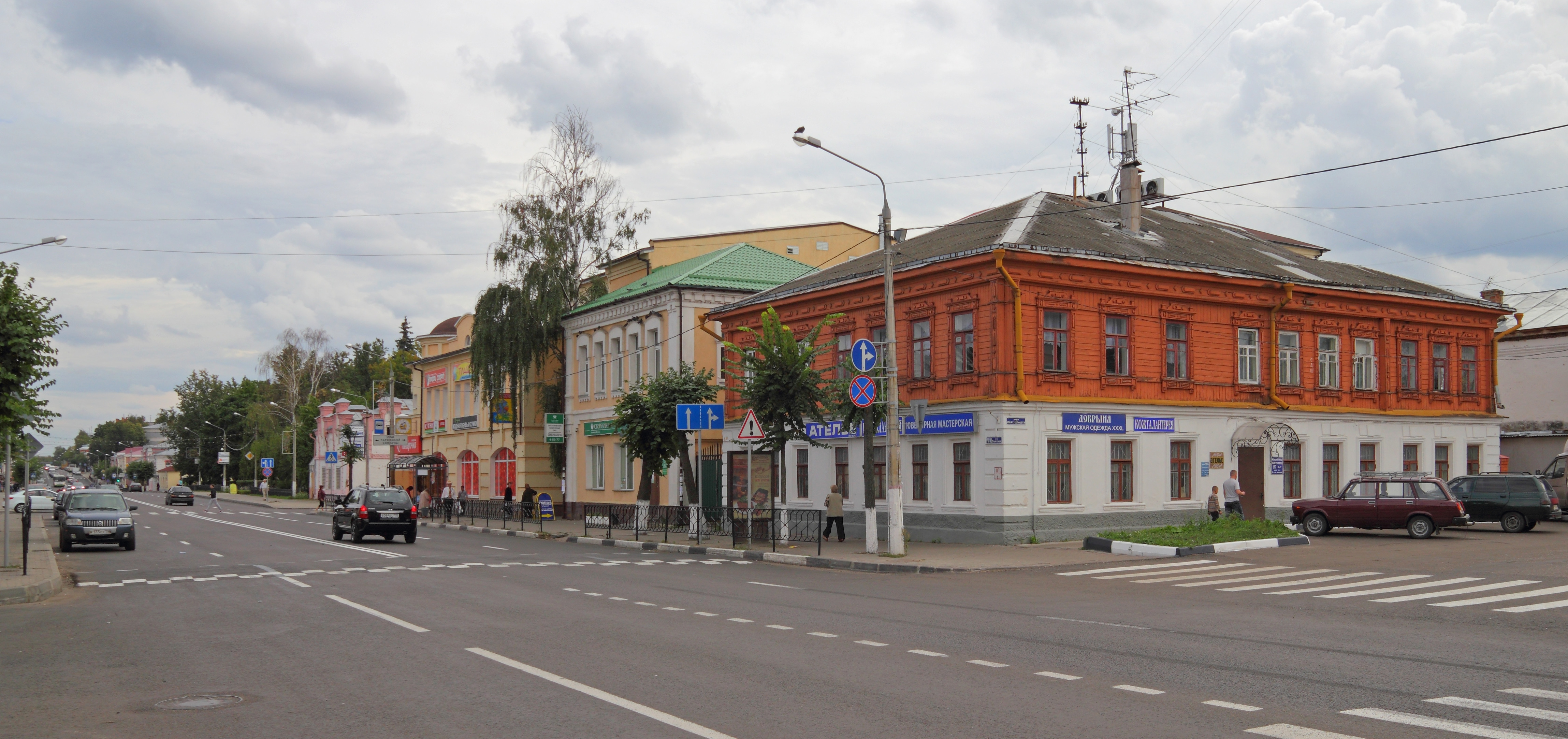 Yegorievsk, Moscow Oblast, Russia. The Sovetskaya Street in the center of the town.